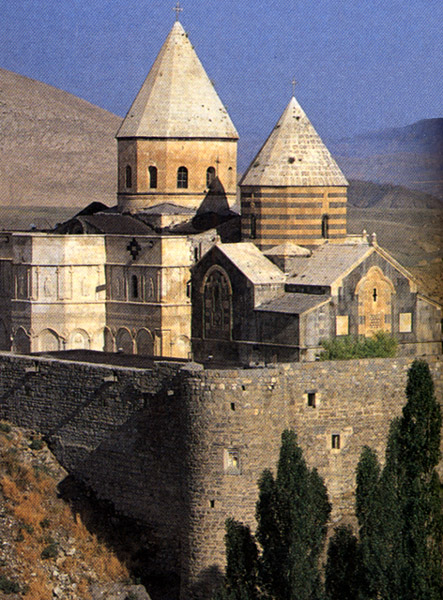 Qara Kelisa ("black church", Sourp Thade in armenian), Chaldoran, West Azerbaïjan, Iran.